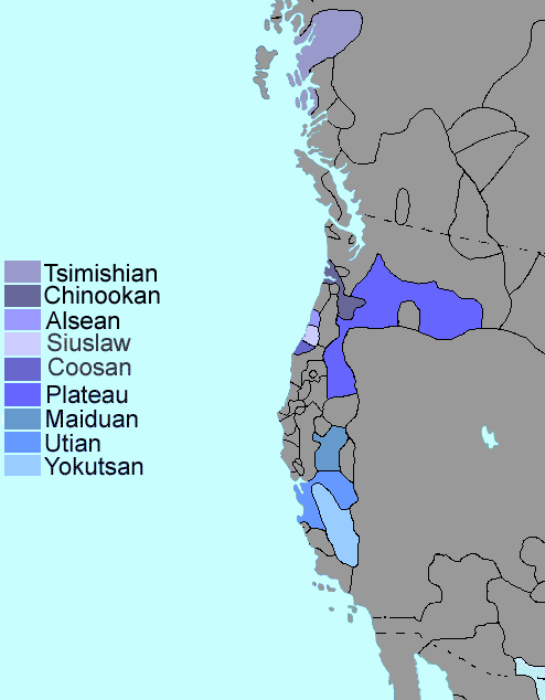 Penutian per DeLancey. Image from .